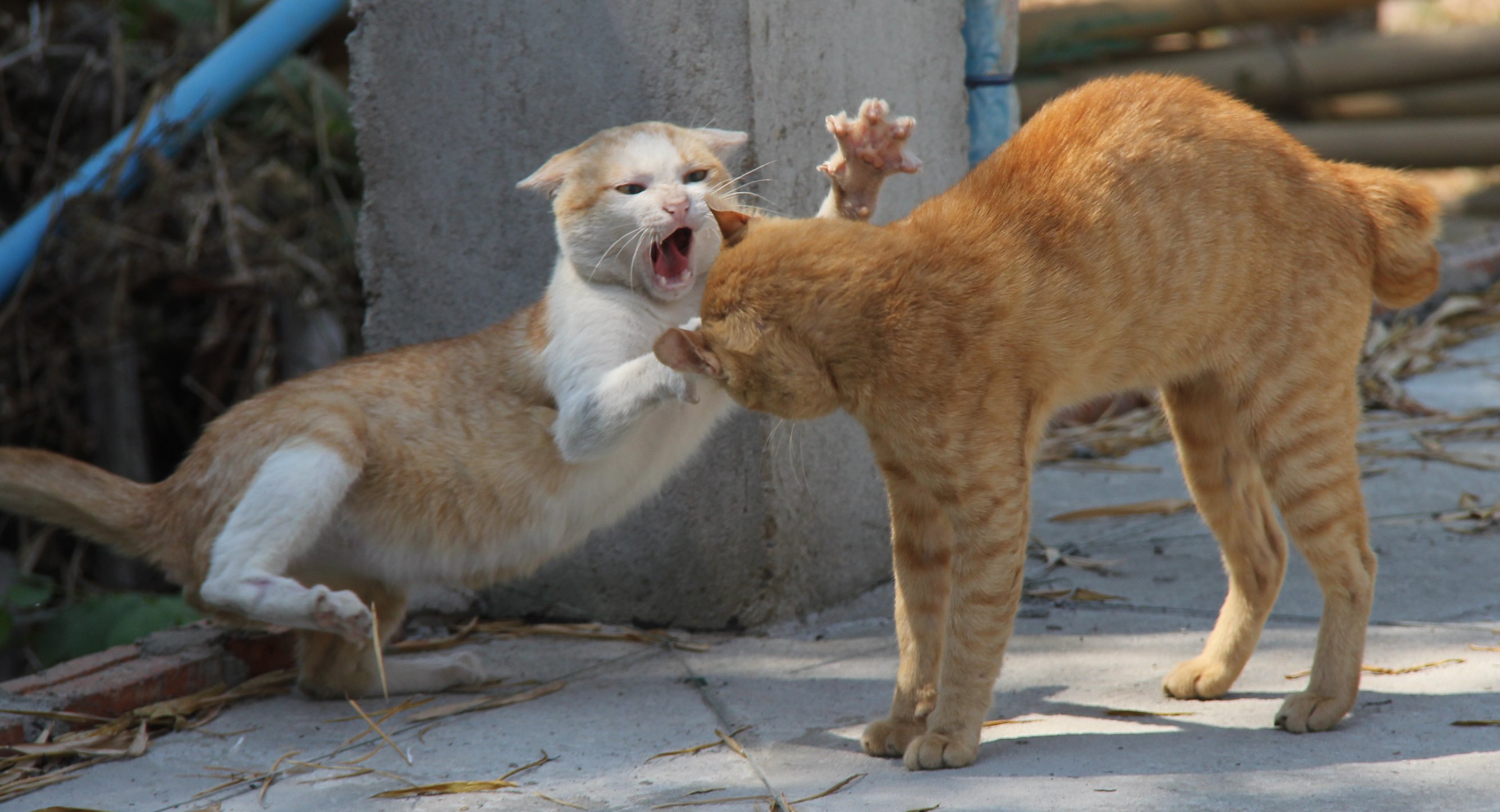 Fighting cat